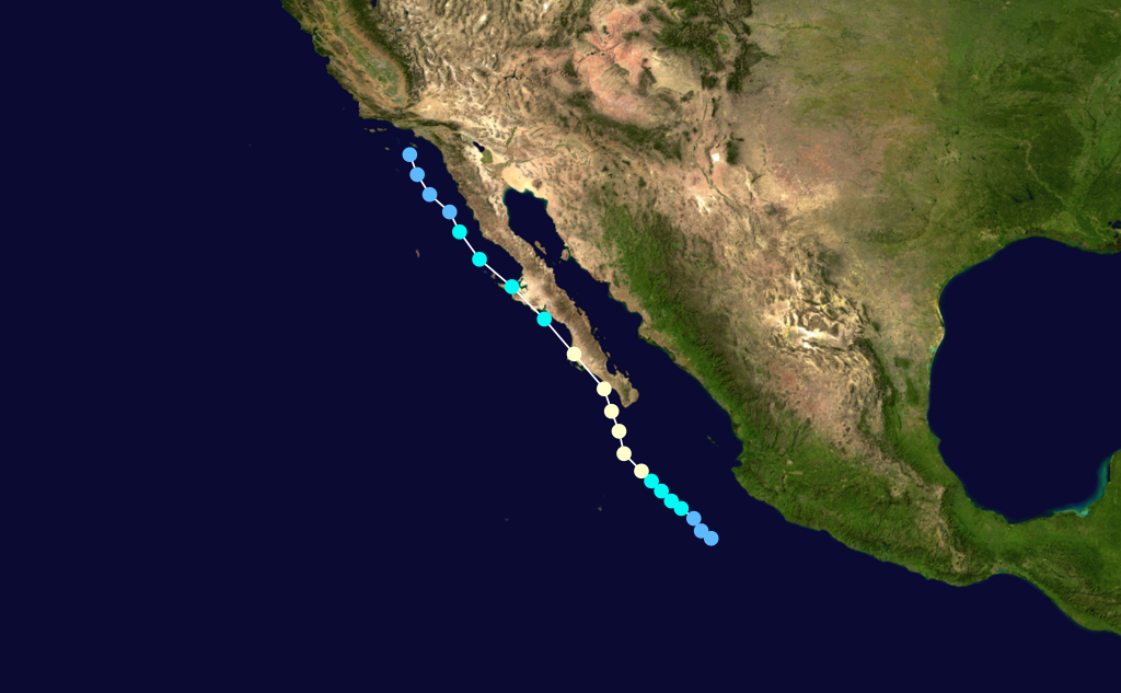 Hurricane Doreen (1978) track. Uses the color scheme from the Saffir-Simpson Hurricane Scale.